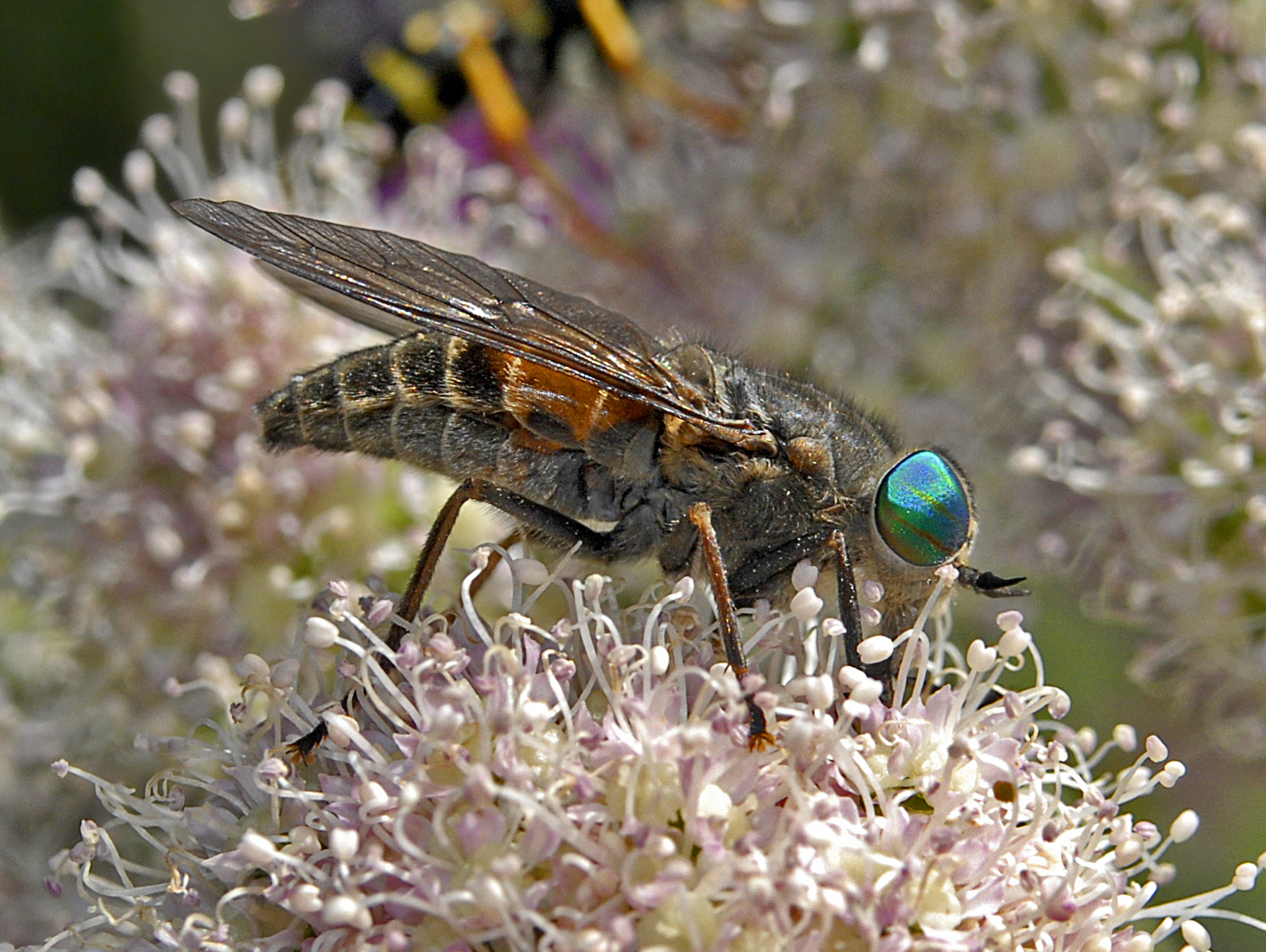 Hybomitra montana. La Thuile, Aosta, Italy